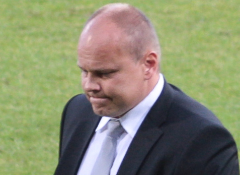 Mixu Paatelainen, Finnish football player and coach